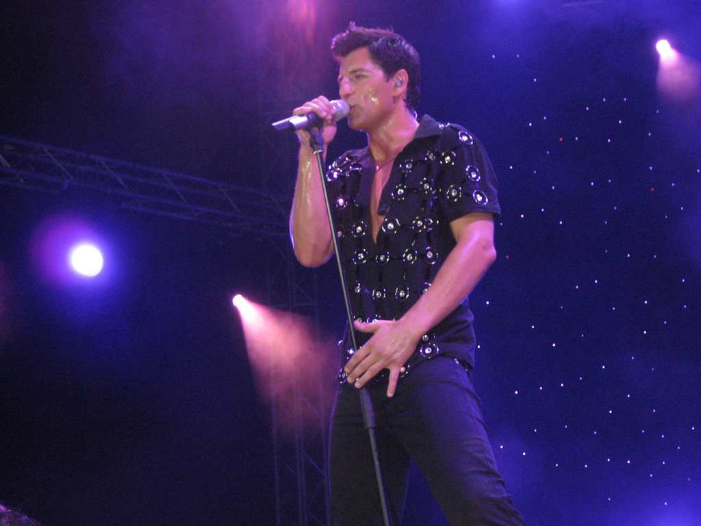 Greek singer Sakis Rouvas performing at Panathinaiko Stadium for the environment